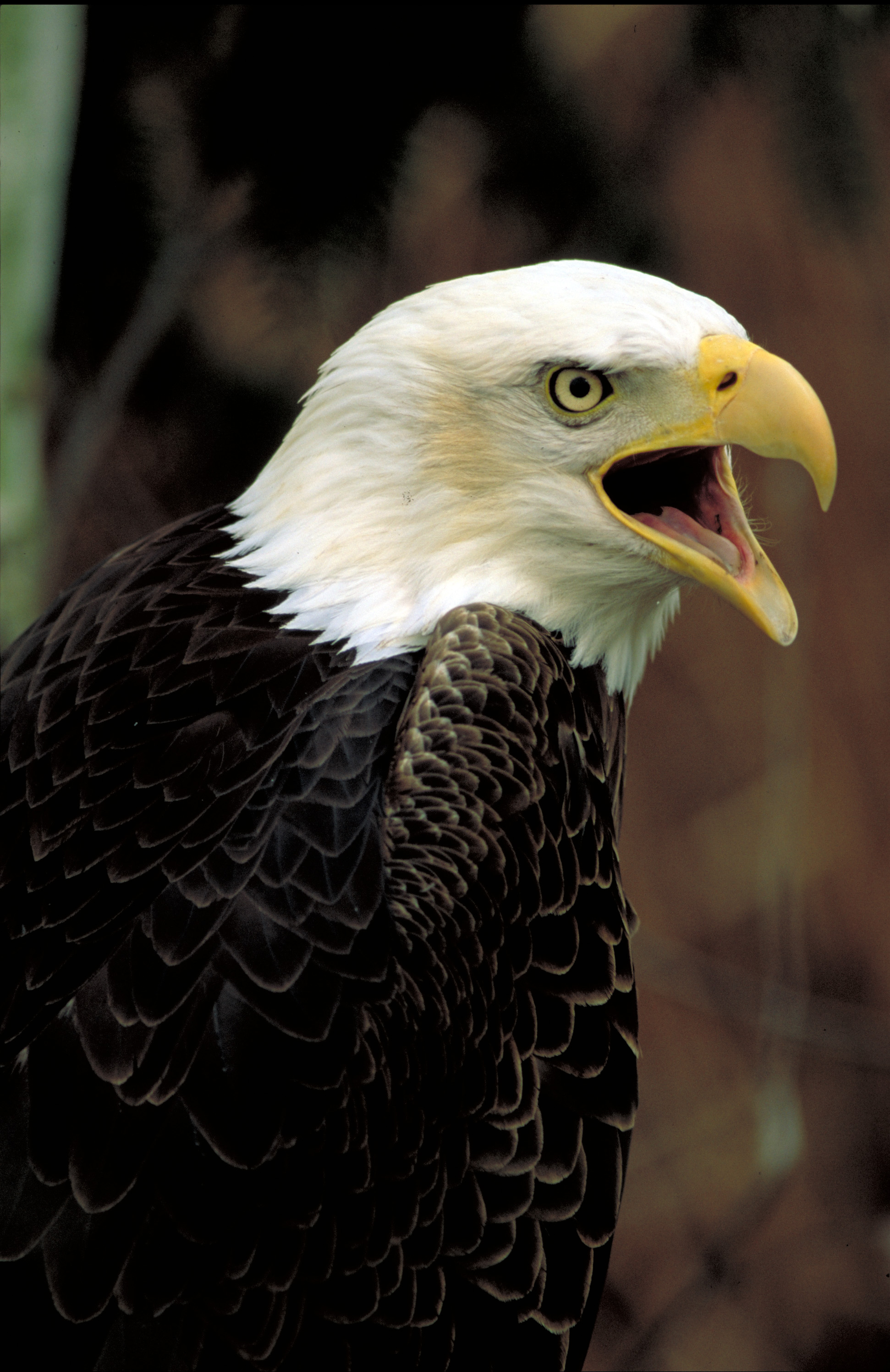 Photo: Dr. Thomas G. Barnes, USFWS